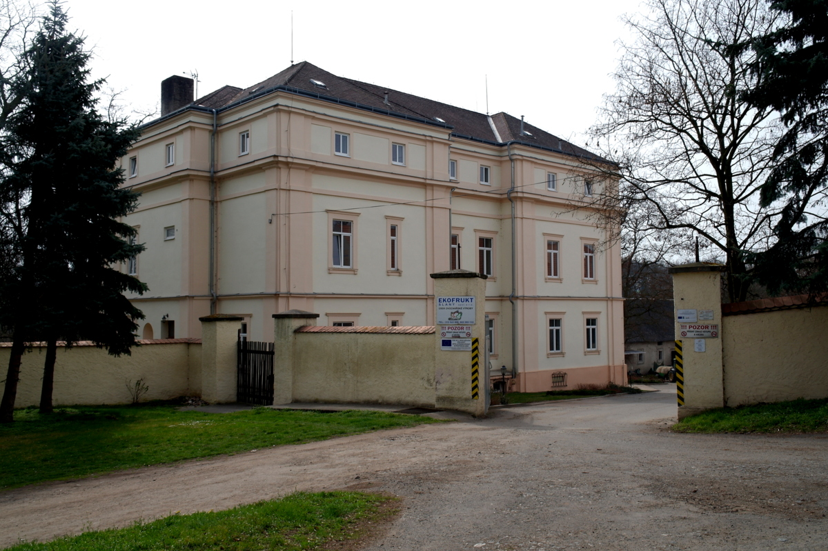 Blahotice Castle, Blahotice (Slaný), Kladno District. The two-story building, built by Baron of Riese-Stallburg in 1870 in the New Renaissance style.